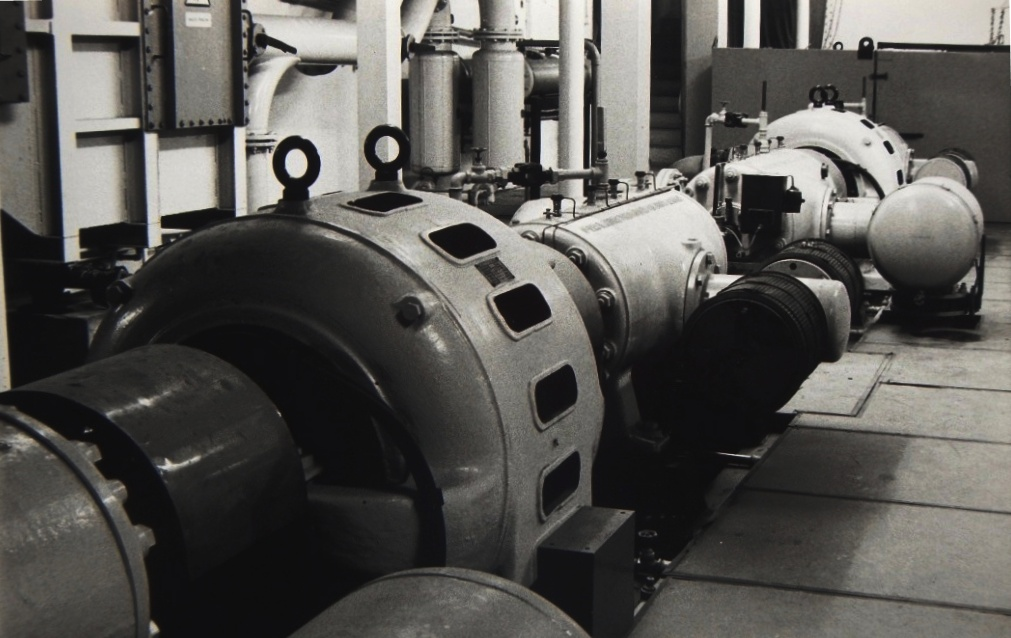 Booster-depressant group in use in 1984 in the postal pneumatic tubes network of Paris